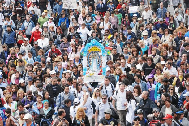 Annual Luján youth pilgrimage (Argentina, 2008)